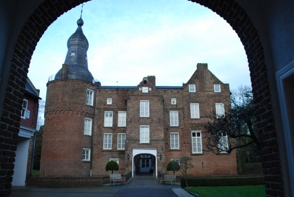 A photo taken from under the arch of the Voorburcht of Kasteel Well in the town of Well in The Netherlands. This photo is of the Main Castle. The courtyard in front of the main castle is the outer courtyard.